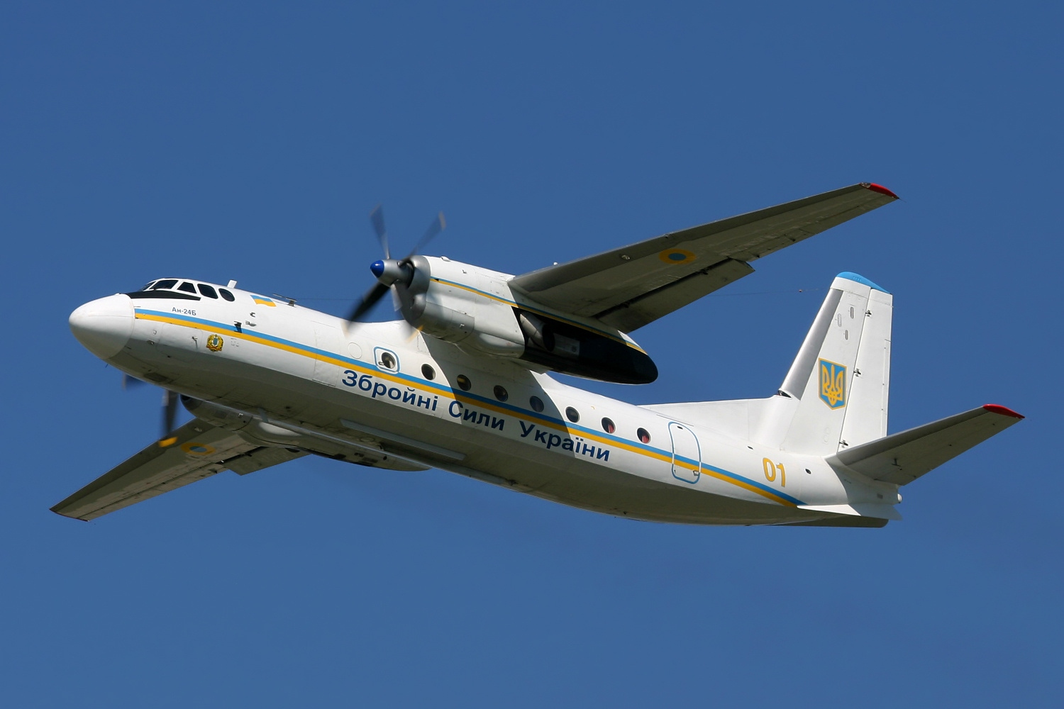 This good old classic turboprop is in the army service till now.